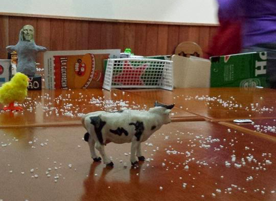 Detail of the net and obstacles used during the special official tournament held in Rio de Janeiro, Brazil.